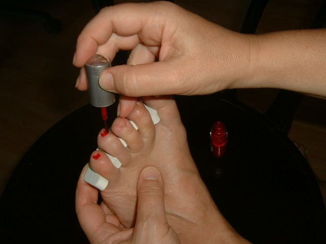 Applying nail polish on toes